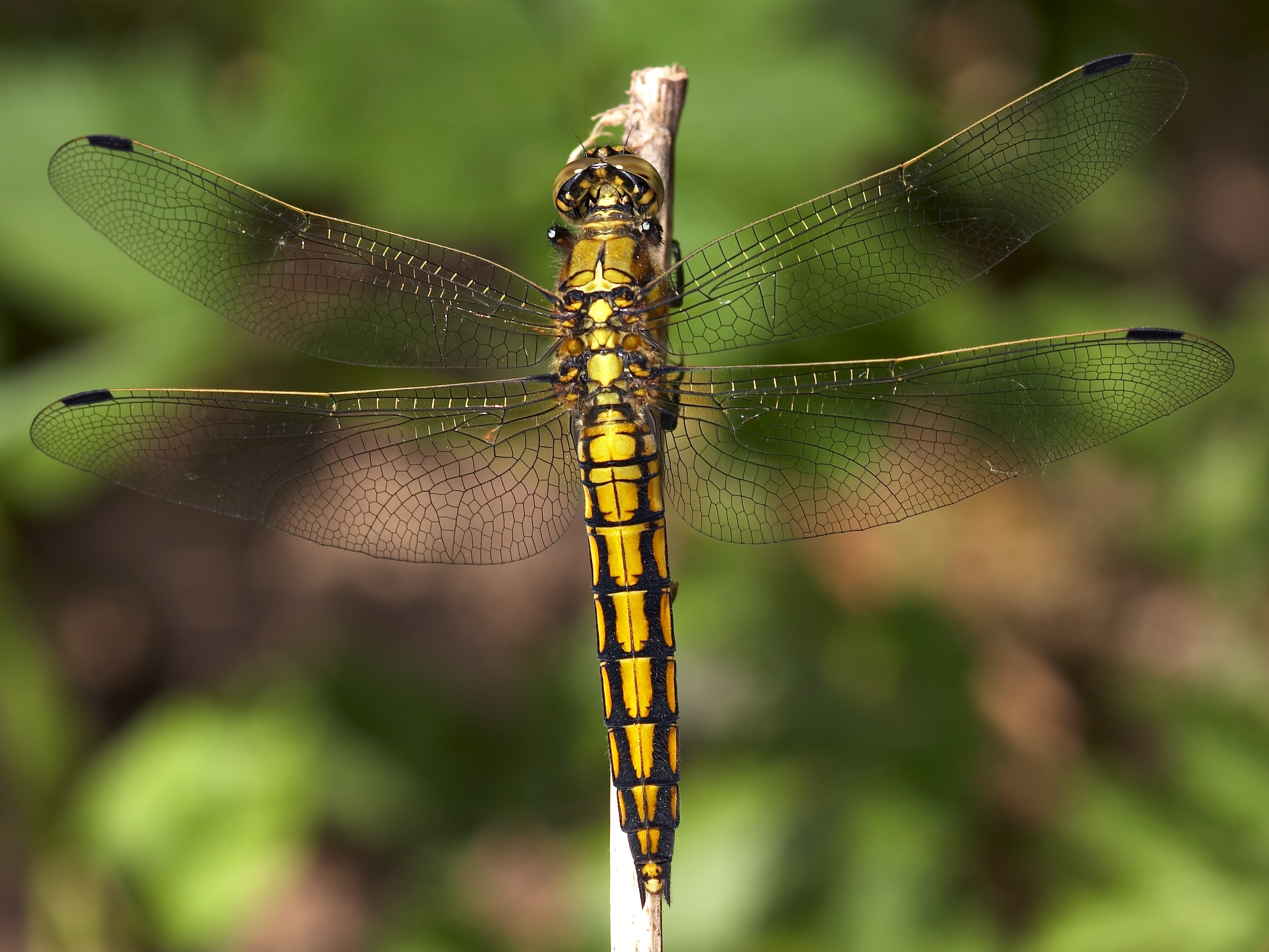 ♀ Black-tailed Skimmer (Orthetrum cancellatum) - top view